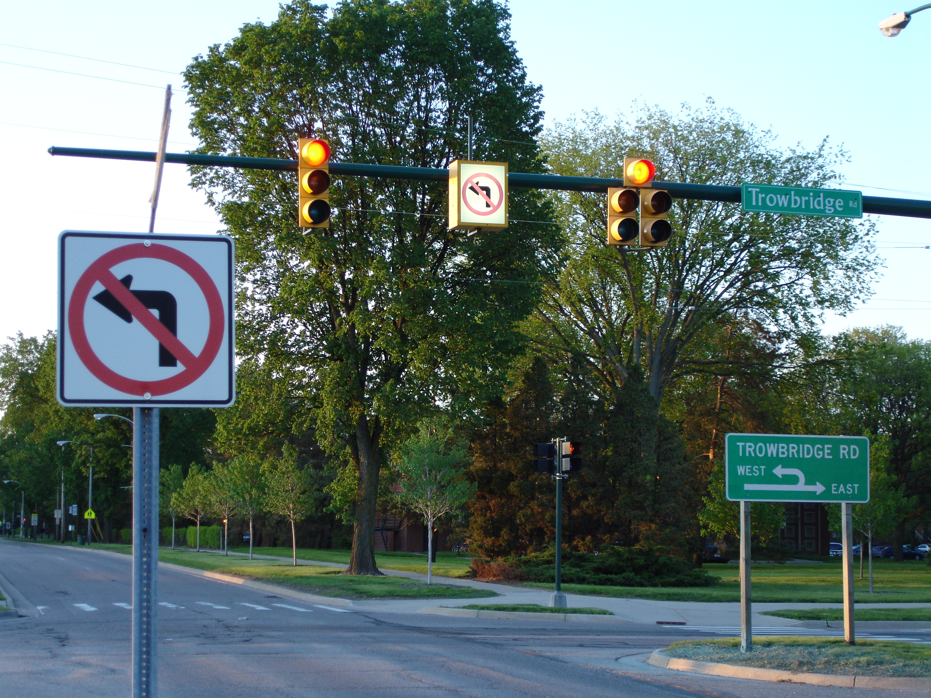 Signage at a Michigan left intersection. Two left-turn prohibition signs, one lit, are visible. On the right is a sign instructing motorists wanting to go left to turn right, then make a U-turn.